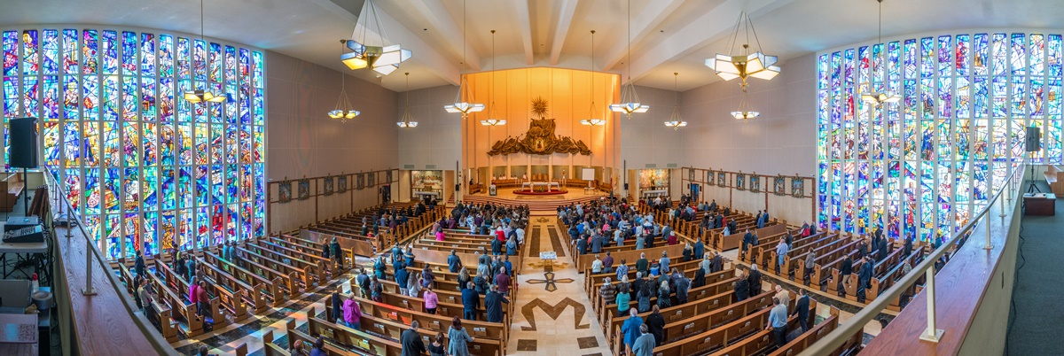 Shrine of Our Lady of Czestochowa (Doylestown, PA) - Main Church Górny Kościół 2